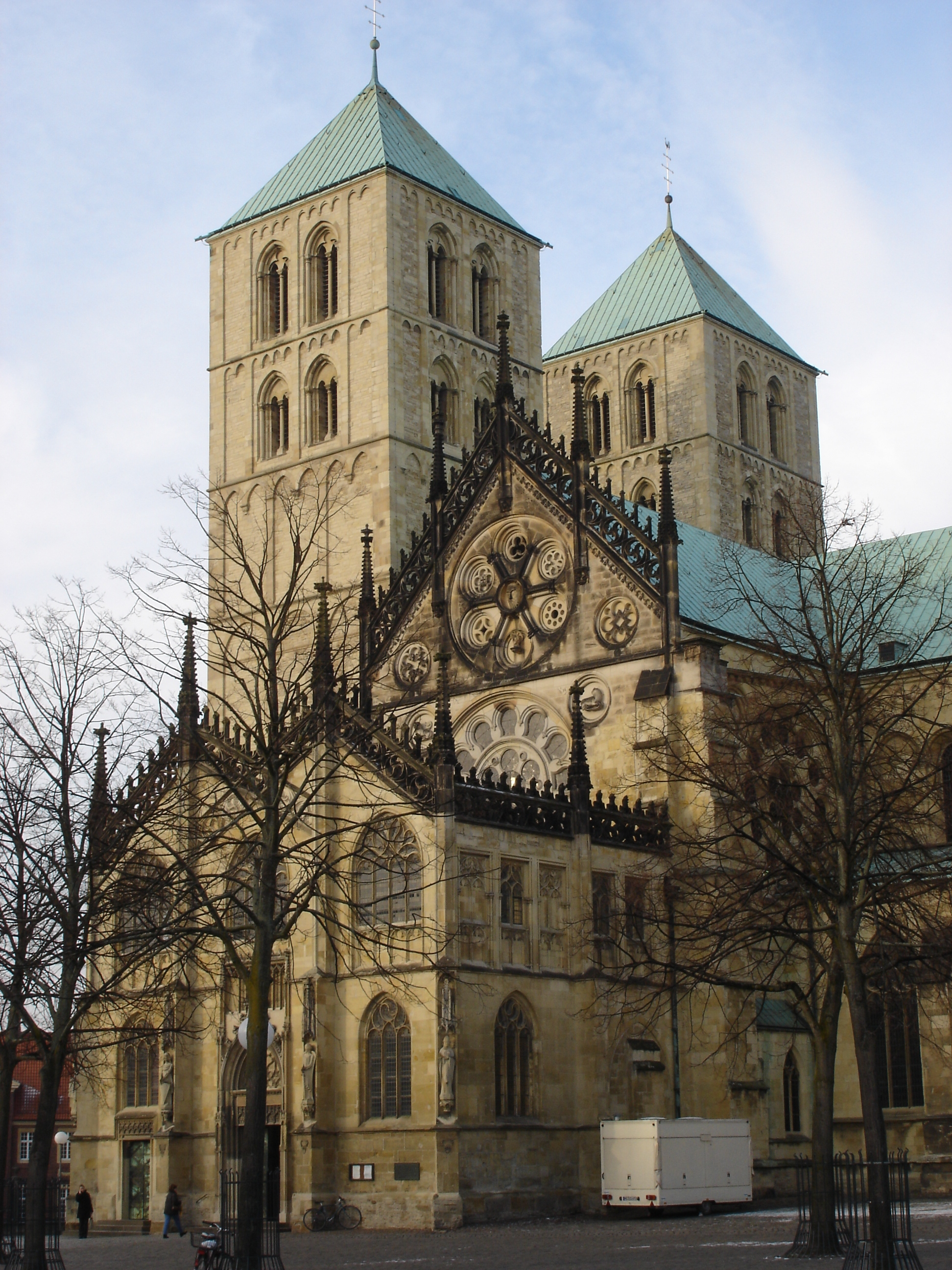 View on the outside of the "Paradiesvorhalle" of the cathedral of Münster, Westphalia, Germany